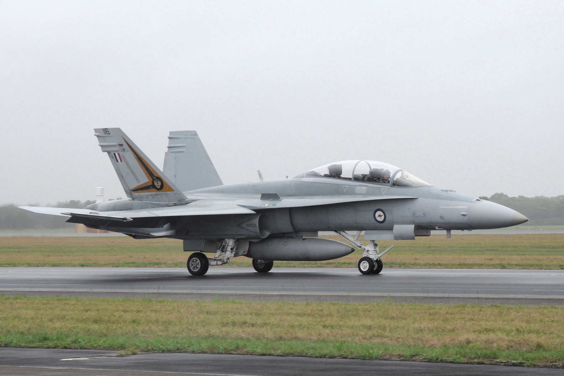 A Royal Australian Air Force (RAAF) F/A-18 Hornet aircraft taxis down the runway at Williamtown RAAF Base, Australia, during the Dissimilar Air Combat Training (DACT) mission Feb. 21, 2011. The training was part of Sentry Down Under, an annual exercise hosted by the RAAF Fighter Weapons School.